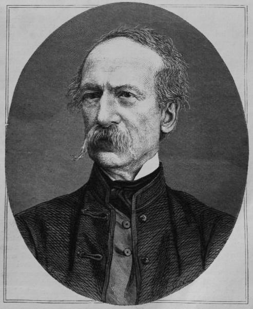 Portrait of János Bánffy (sheriff)